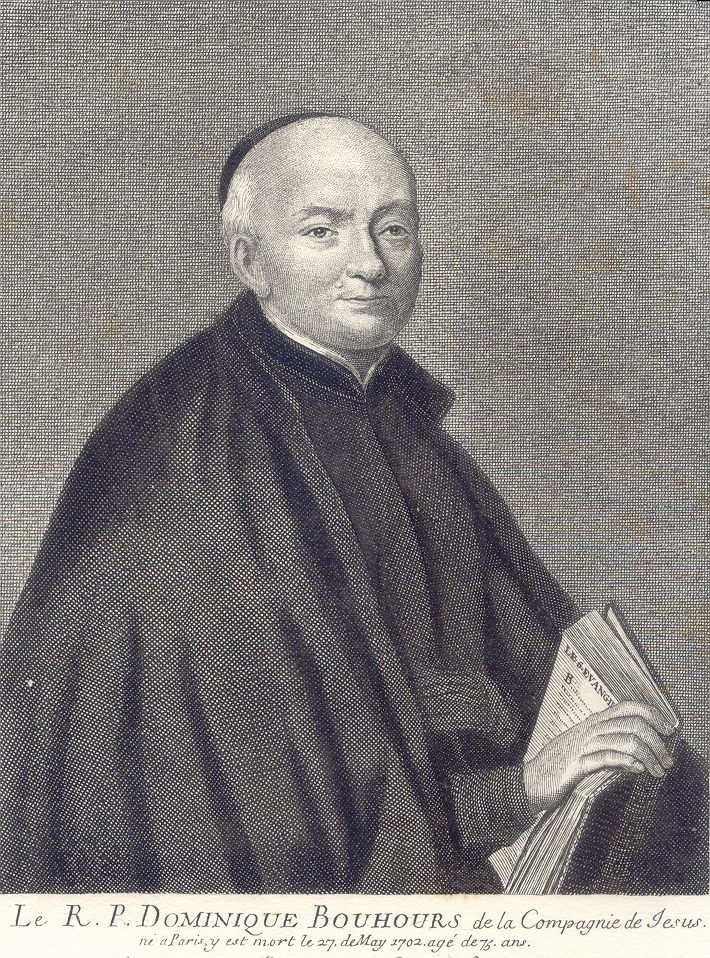 Engraving of Dominique Bouhours, French Jesuit (from the A.Lamy 'Galerie illustrée de la Compagnie de Jésus', Paris, 1893)